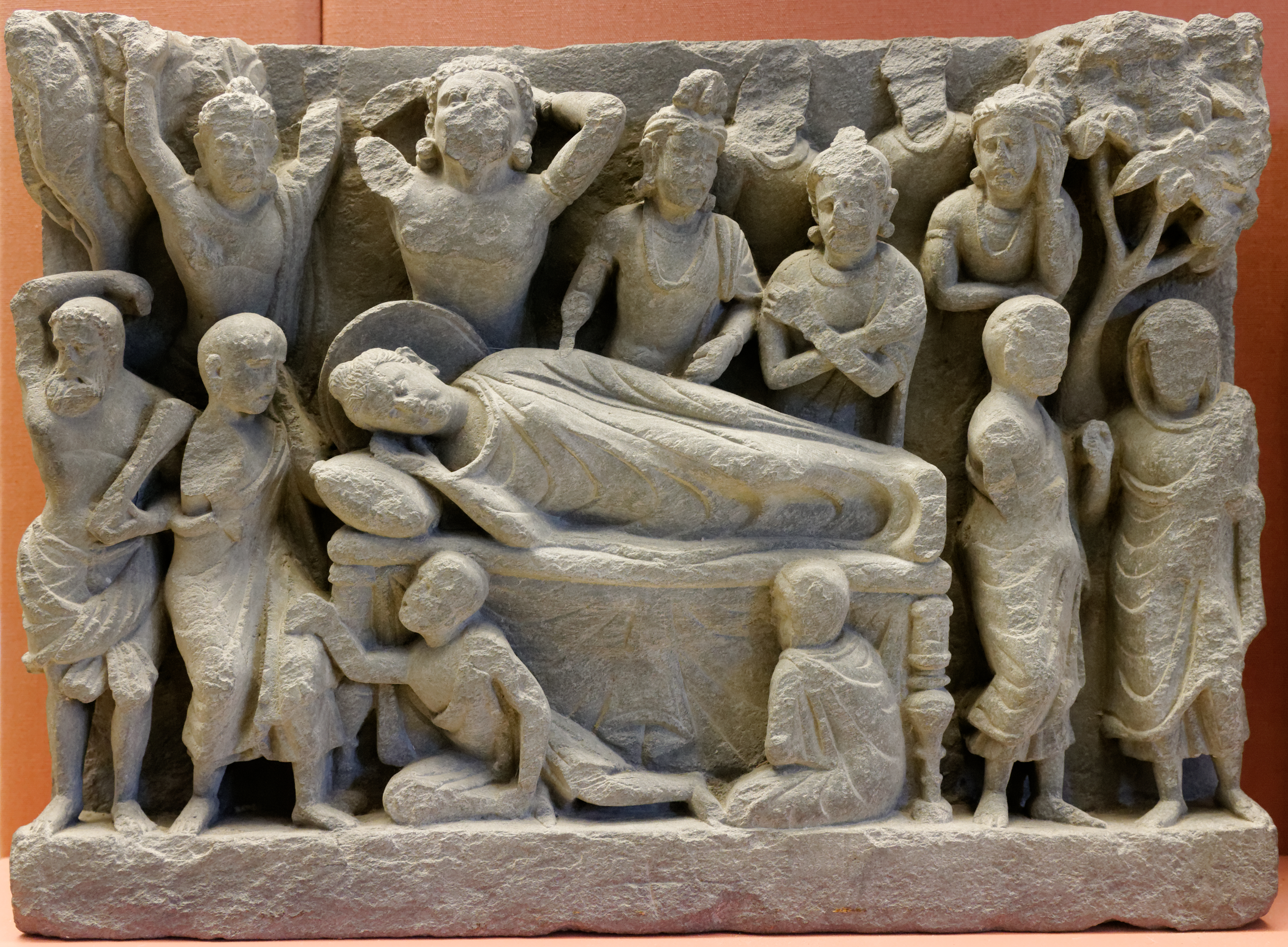 The Death of the Buddha.